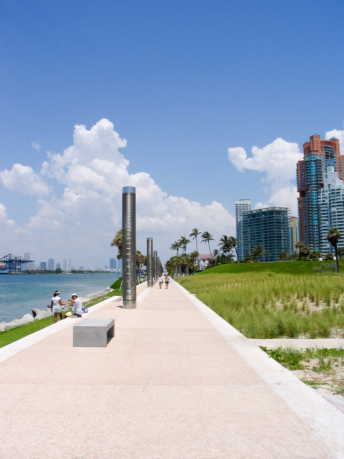 Promenade along South Pointe